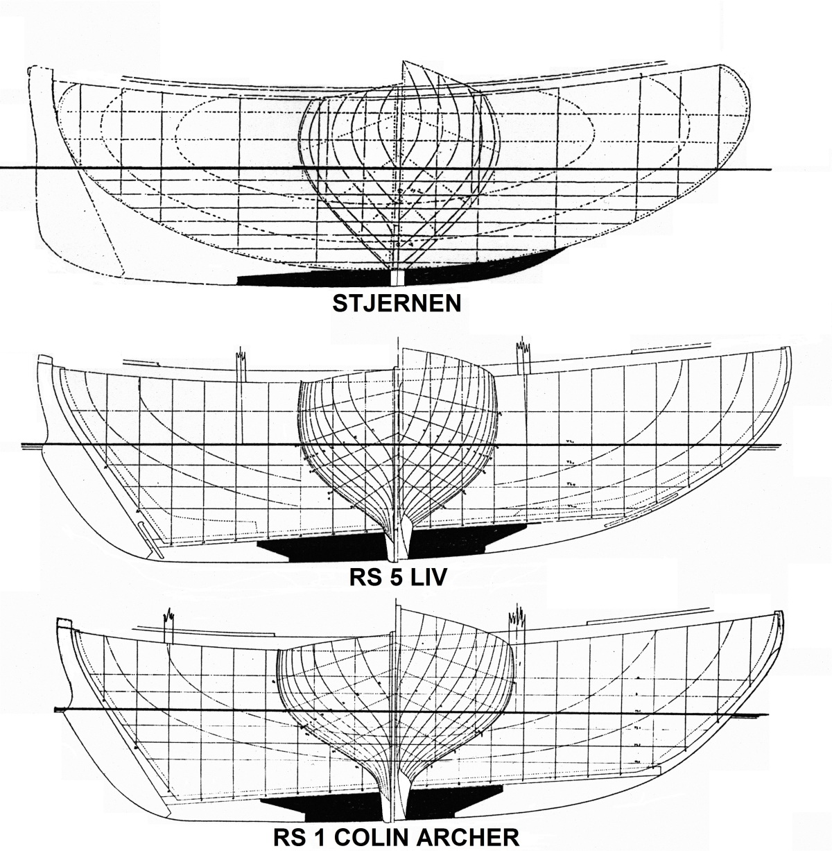 RS 1 Colin Archer